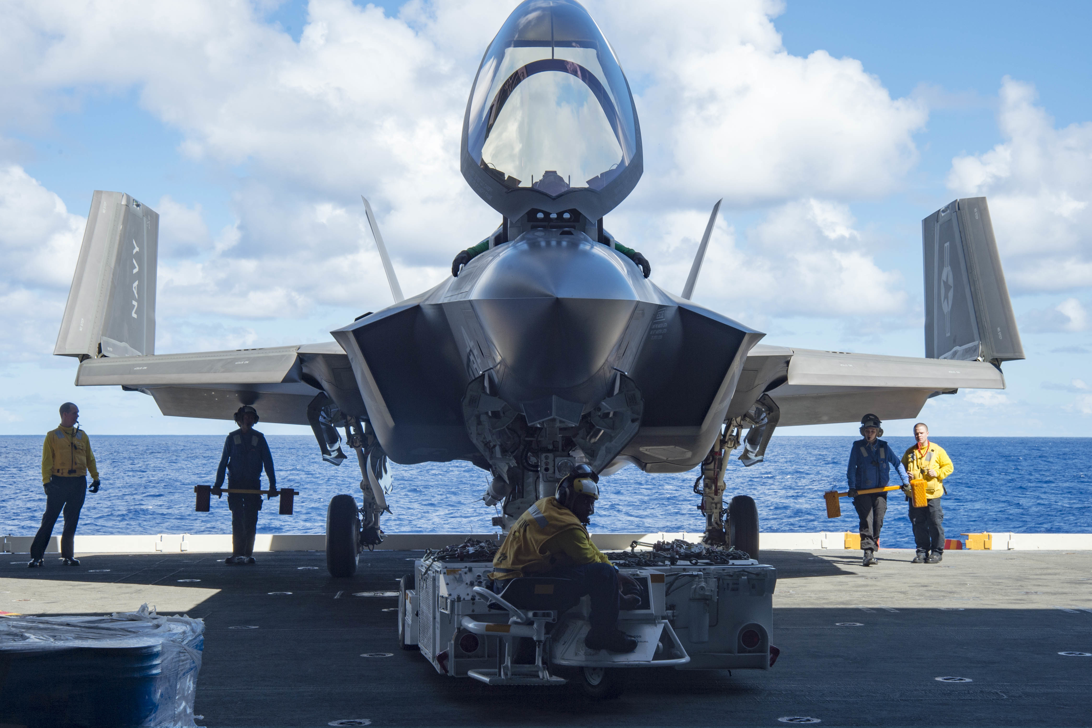 A U.S. Navy Lockheed Martin F-35C Lightning II assigned to Air Test and Evaluation Squadron 23 (VX-23) "Salty Dogs" on the flight deck of the aircraft carrier USS Dwight D. Eisenhower (CVN-69) in the Atlantic Ocean. The "F-35C Lightning II Pax River Integrated Test Force" was aboard Dwight D. Eisenhower conducting follow-on sea trials.